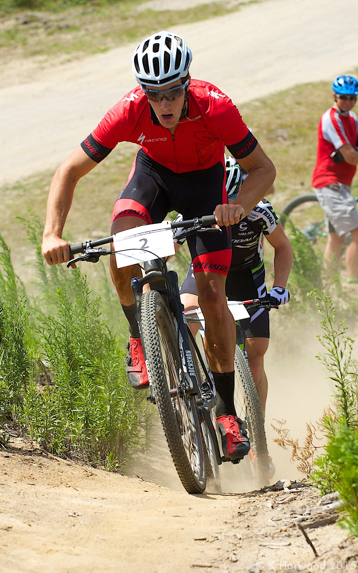 Sam Gaze at the 2015 Mountain bike nationals elite race in Rotorua